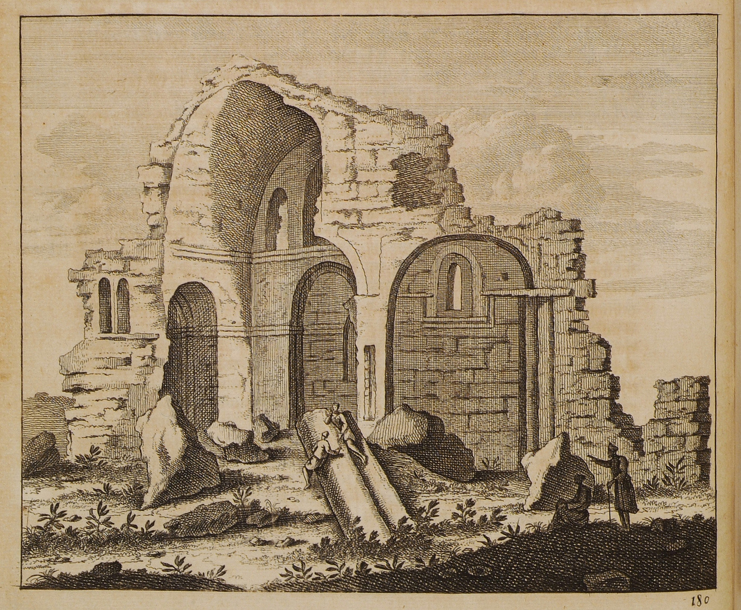 Cornelis deBruyn. Voyage au Levant, c’est-à-dire, dans les principaux endroits de l’Asie Mineure, dans les isles de Chio, Rhodes, et Chypre etc., Paris, Guillaume Cavelier, 1714.